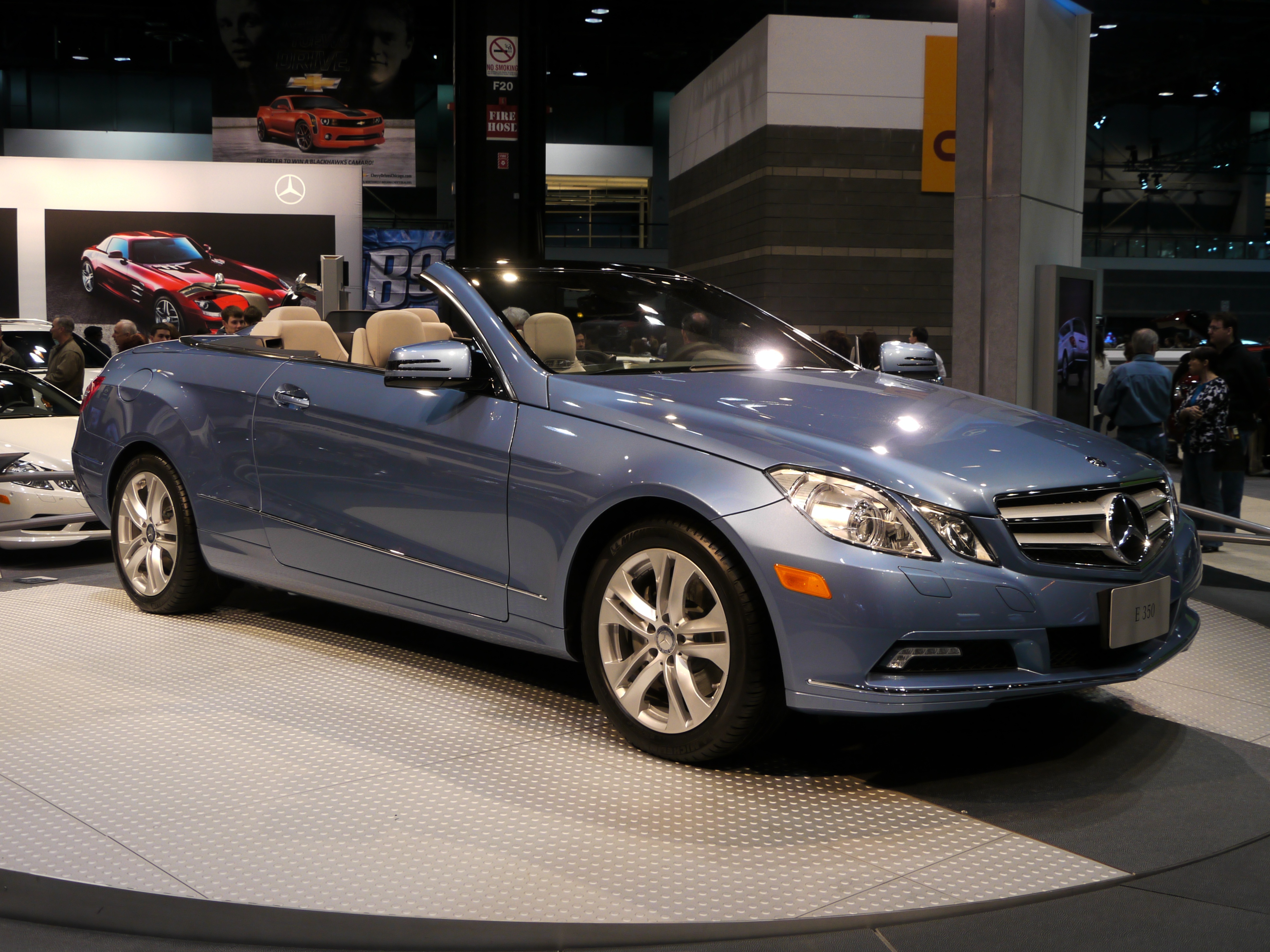 Mercedes E350 Convertable at Chicago Auto Show 2010